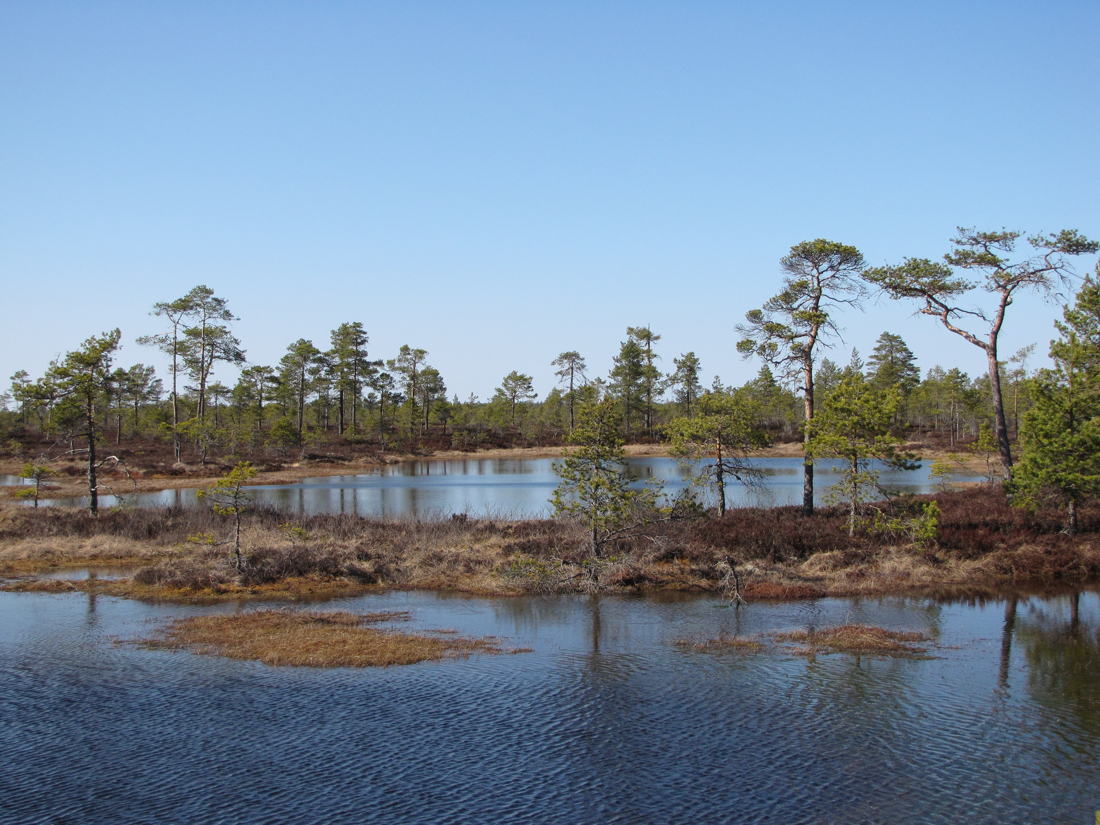 The Kauhaneva mire, one of the biggest mires in the southern half of Finland and a very significant nesting site for many bird species (especially cranes), is protected in the Kauhaneva–Pohjankangas National Park in the municipality of Kauhajoki, Southern Ostrobotnia.